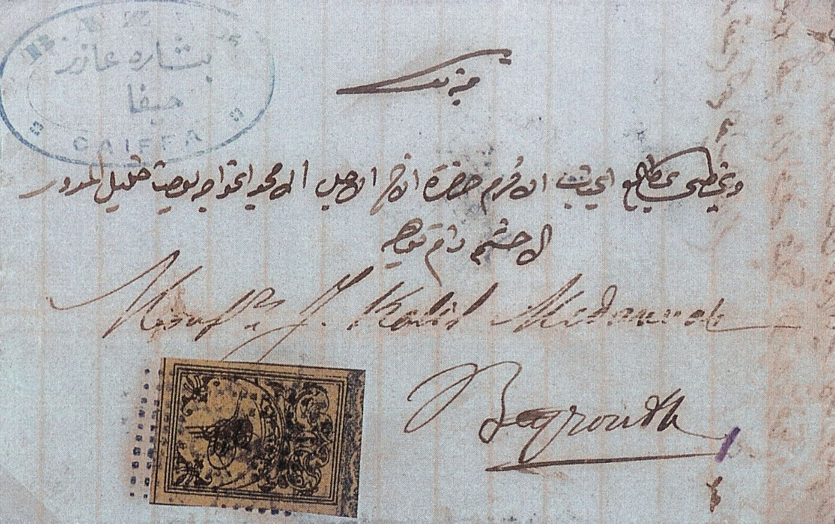 Turkish Post 1863 - Haifa